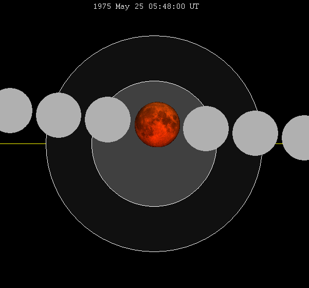 May 1975 lunar eclipse chart of moon's total lunar eclipse path through the earth's shadow. thumb